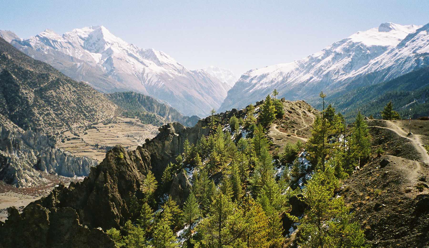 Manang valley - Nepal. Behind the hill is Manang town.